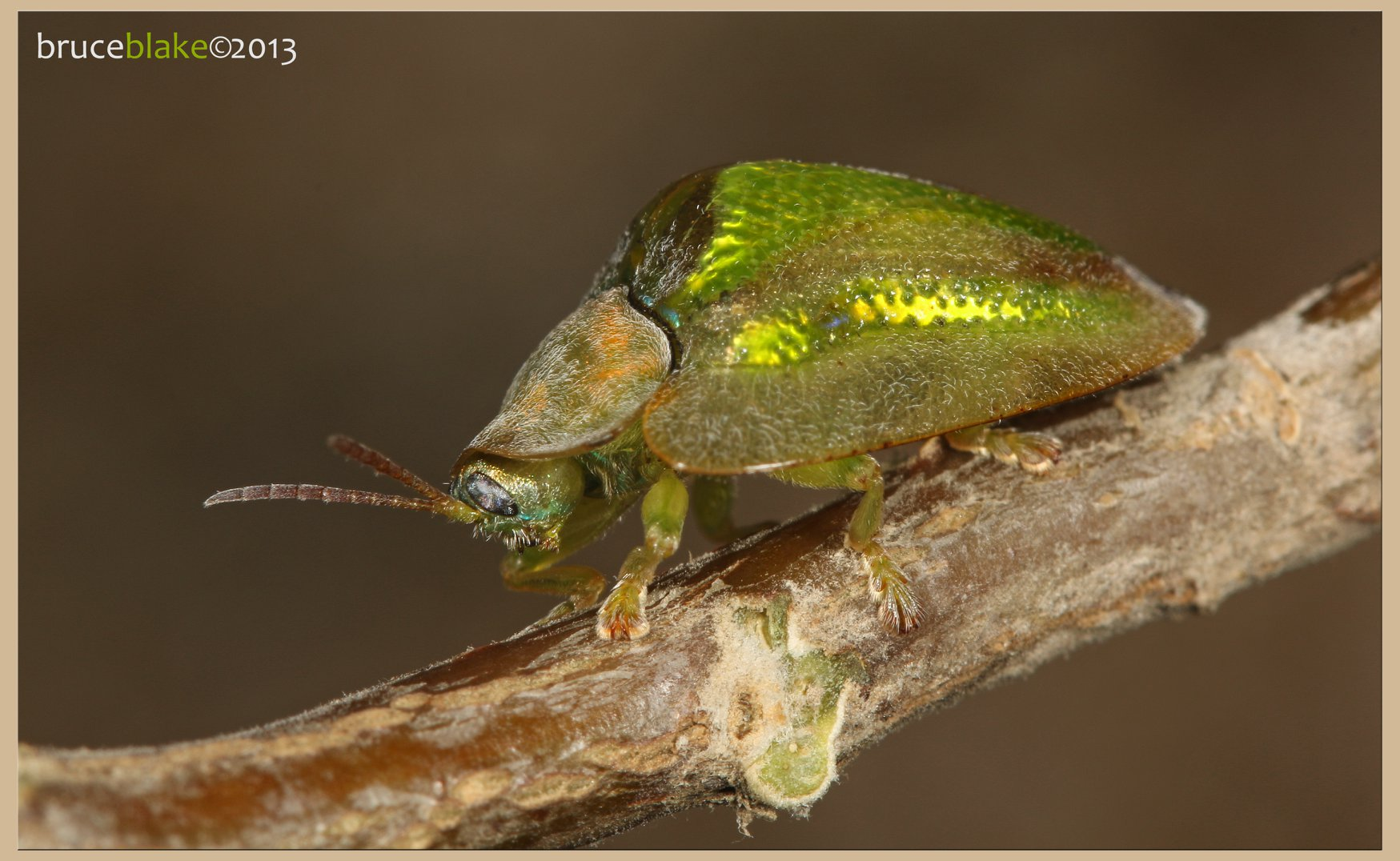 Basipta stolida - Amanzimtoti, South Africa